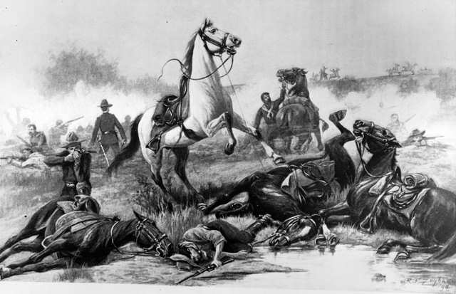 The Battle of Beecher Island, Colorado, 1868, pitted Native American Cheyenne against the U. S. Cavalry. One white man and three horses have fallen, others wage the battle.